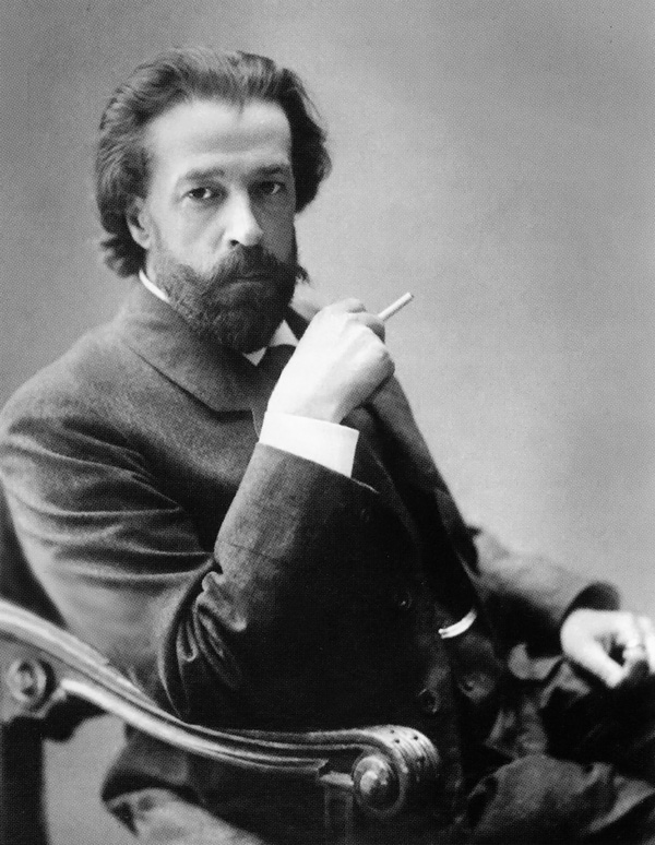 Vladimir Sherwood (Jr.), Russian architect, photo of 1900s.